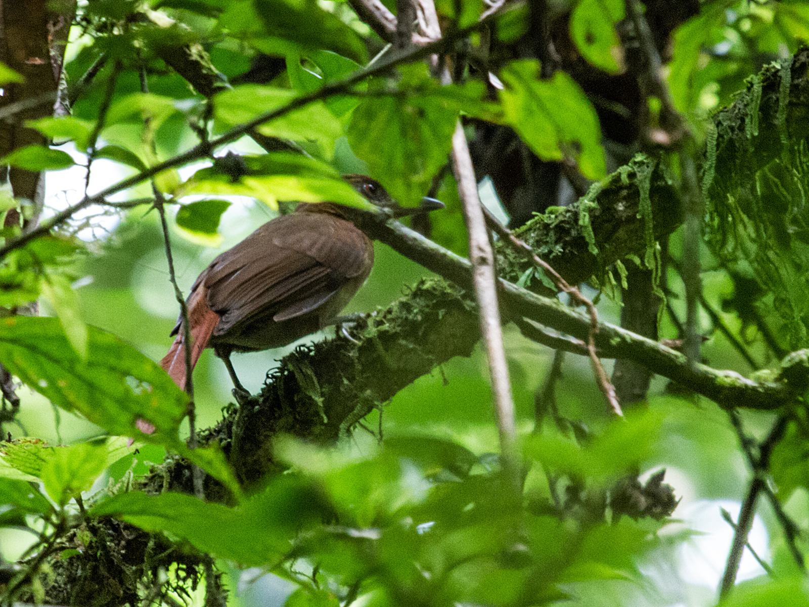 Brown-rumped Foliage-gleaner from Yasuní Research Station, Orellana, Ecuador.